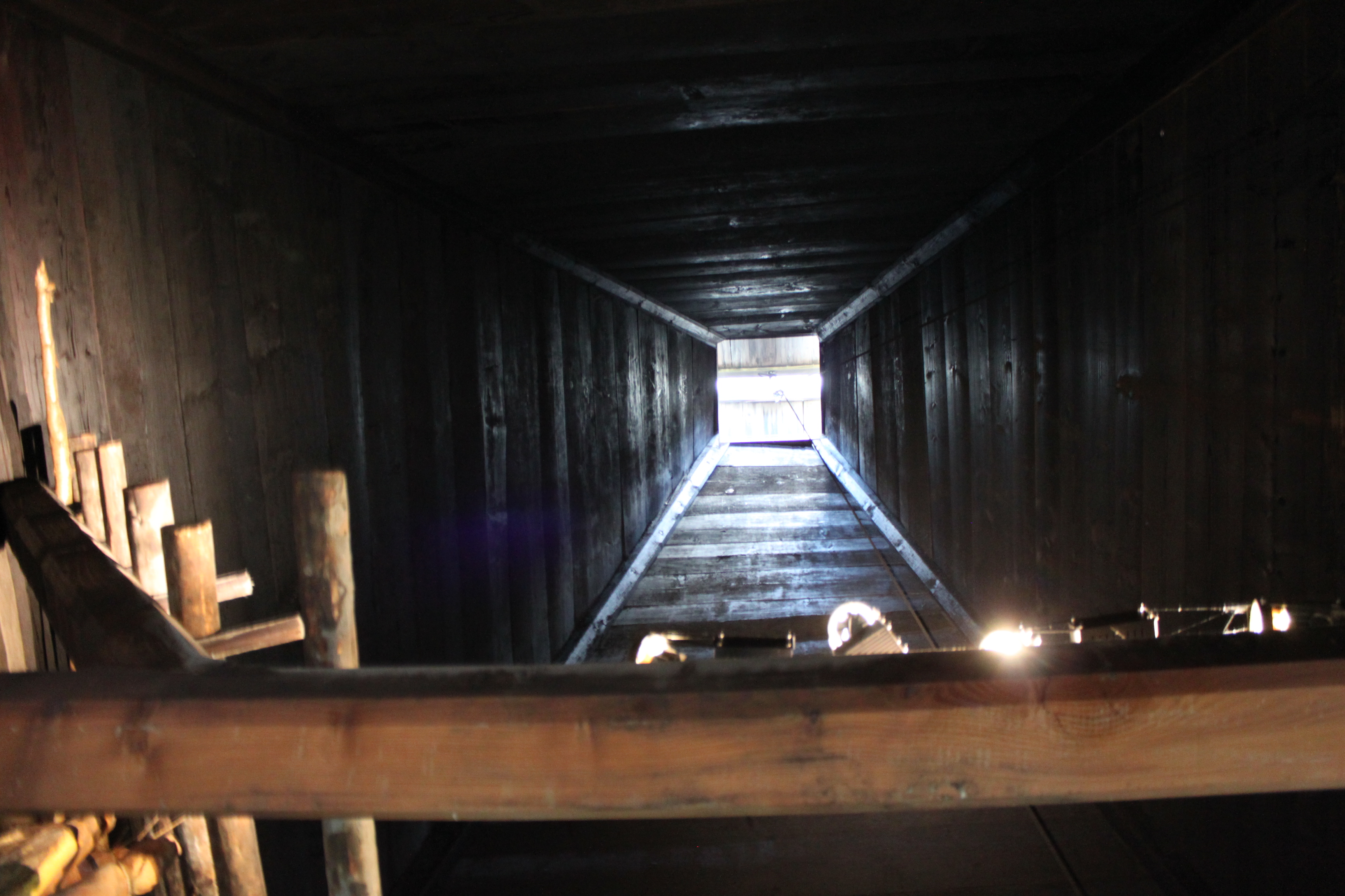 Maisons Comtoises de Nancray, France